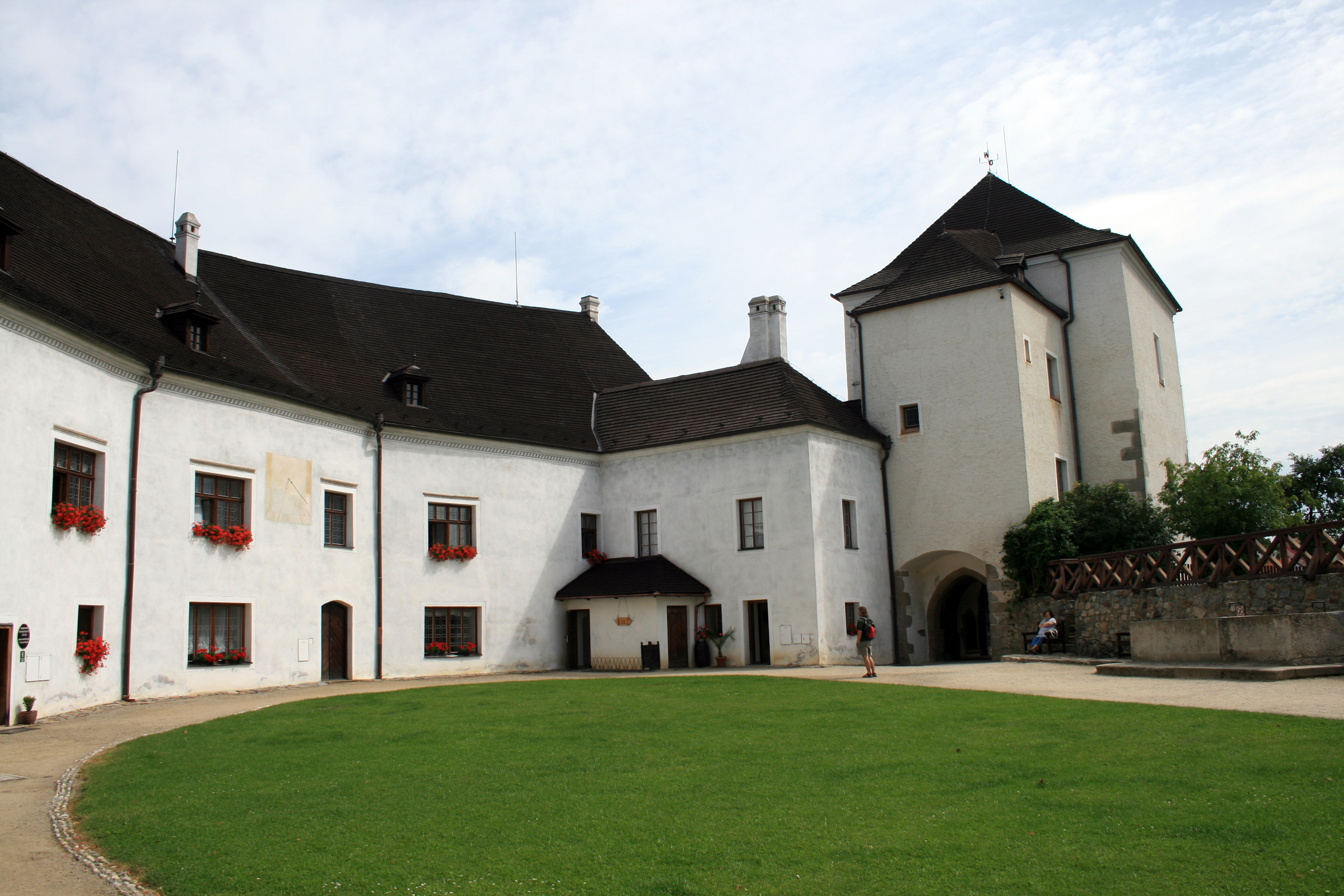 Old castle in Nové Hrady, South Bohemia, Czech Republic